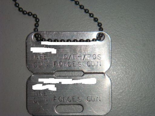 Standard Canadian Forces ID Disk